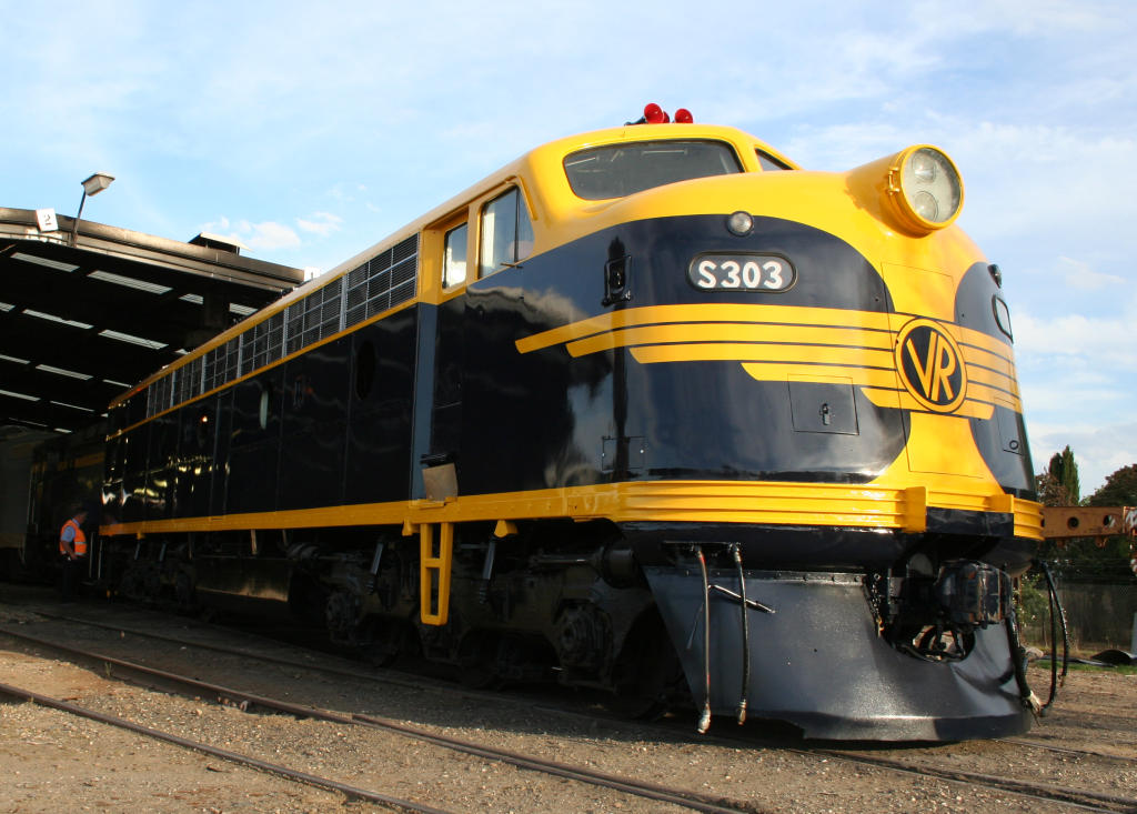 Victorian Railways S class diesel electric locomotive S303, restored by the Seymour Railway Heritage Centre, Victoria, Australia